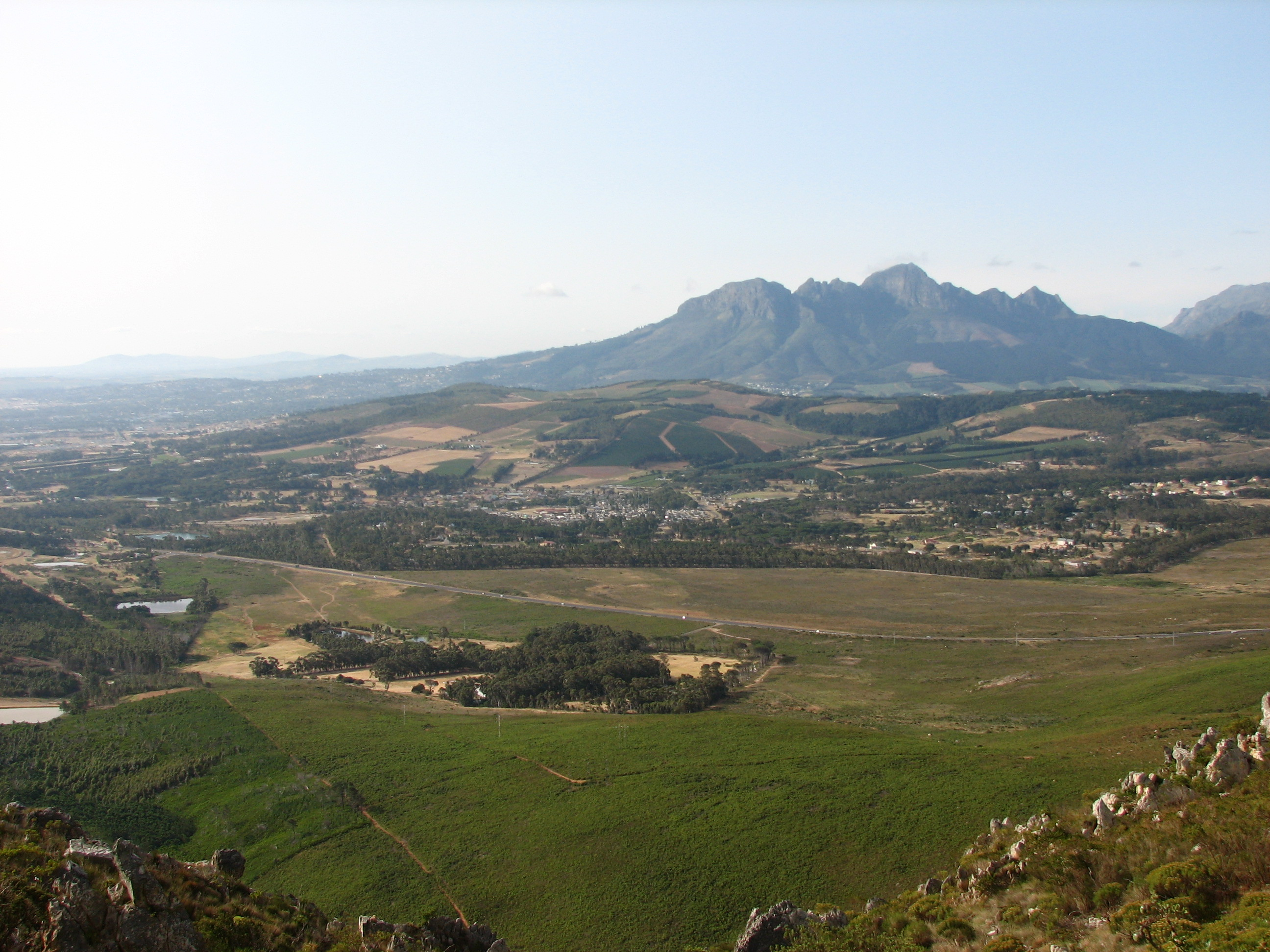 Somerset West from SirLowrys